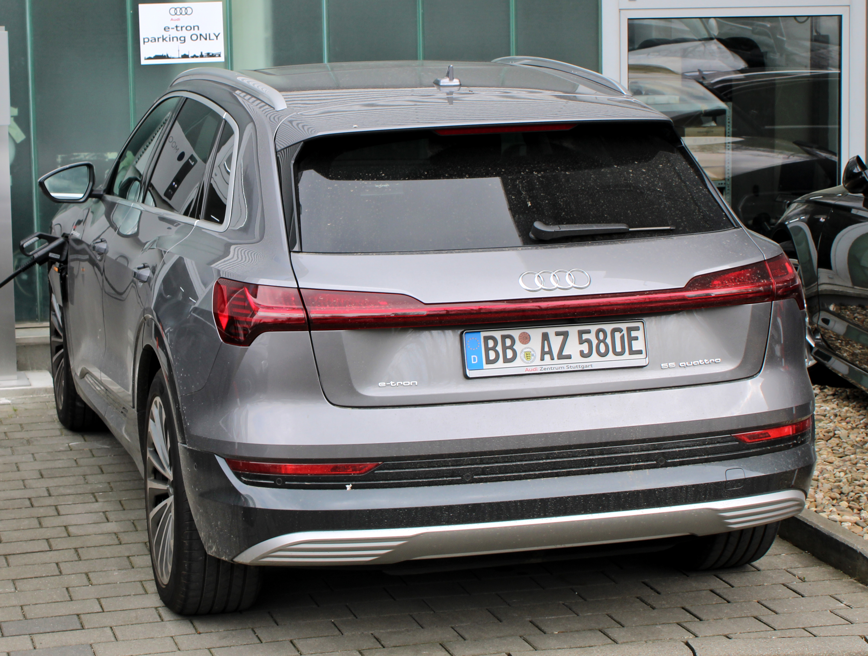 Audi e-tron 55 Quattro in Stuttgart-Vaihingen